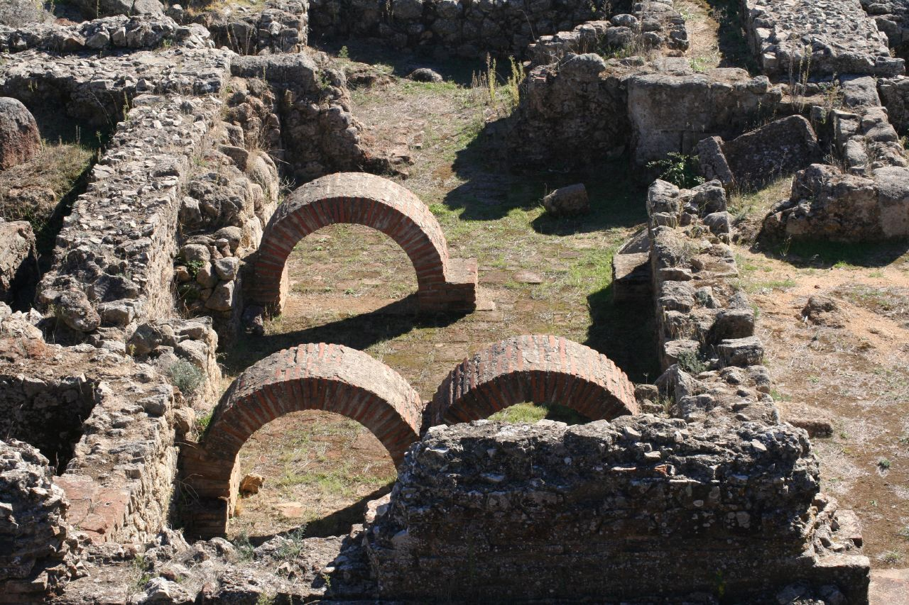 Roman ruins of São Cucufate / Portugal